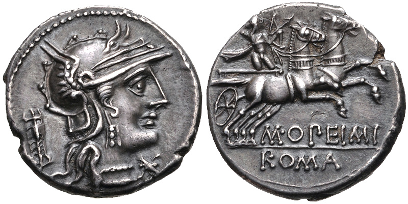 M. Opimius 131 BC. AR Denarius (18mm, 3.93 g, 1h). Rome mint. Helmeted head of Roma right; tripod to left, mark of value below chin / Apollo driving galloping biga right, holding arrow, reins, and bow, quiver over shoulder. Crawford 254/1; Sydenham 475; Opimia 16; Type as RBW 1037. EF, deeply toned. From the Andrew McCabe Collection. Ex America Collection (Numismatica Ars Classica 97, 12 December 2016), lot 8; JD Collection, Part II (Numismatica Ars Classica 72, 16 May 2013), lot 456.